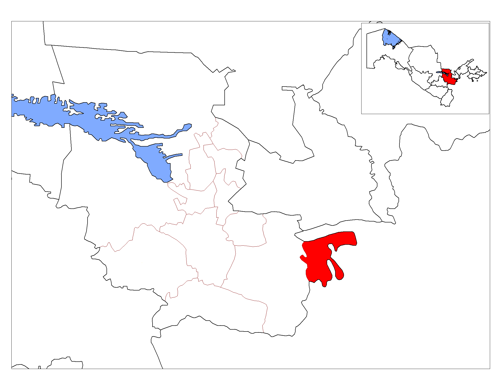 Location map of Yangiobod District in Jizzax Province, Uzbekistan